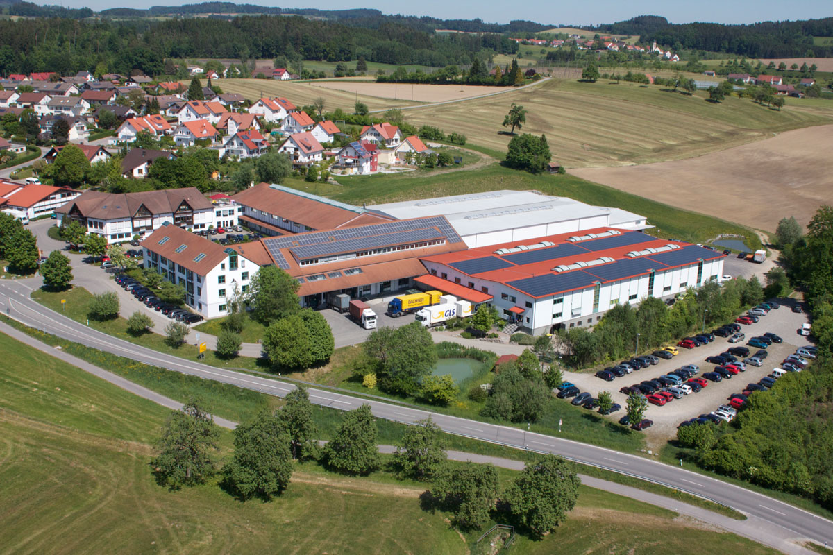 Vaude Headquarters in Tettnang, Germany